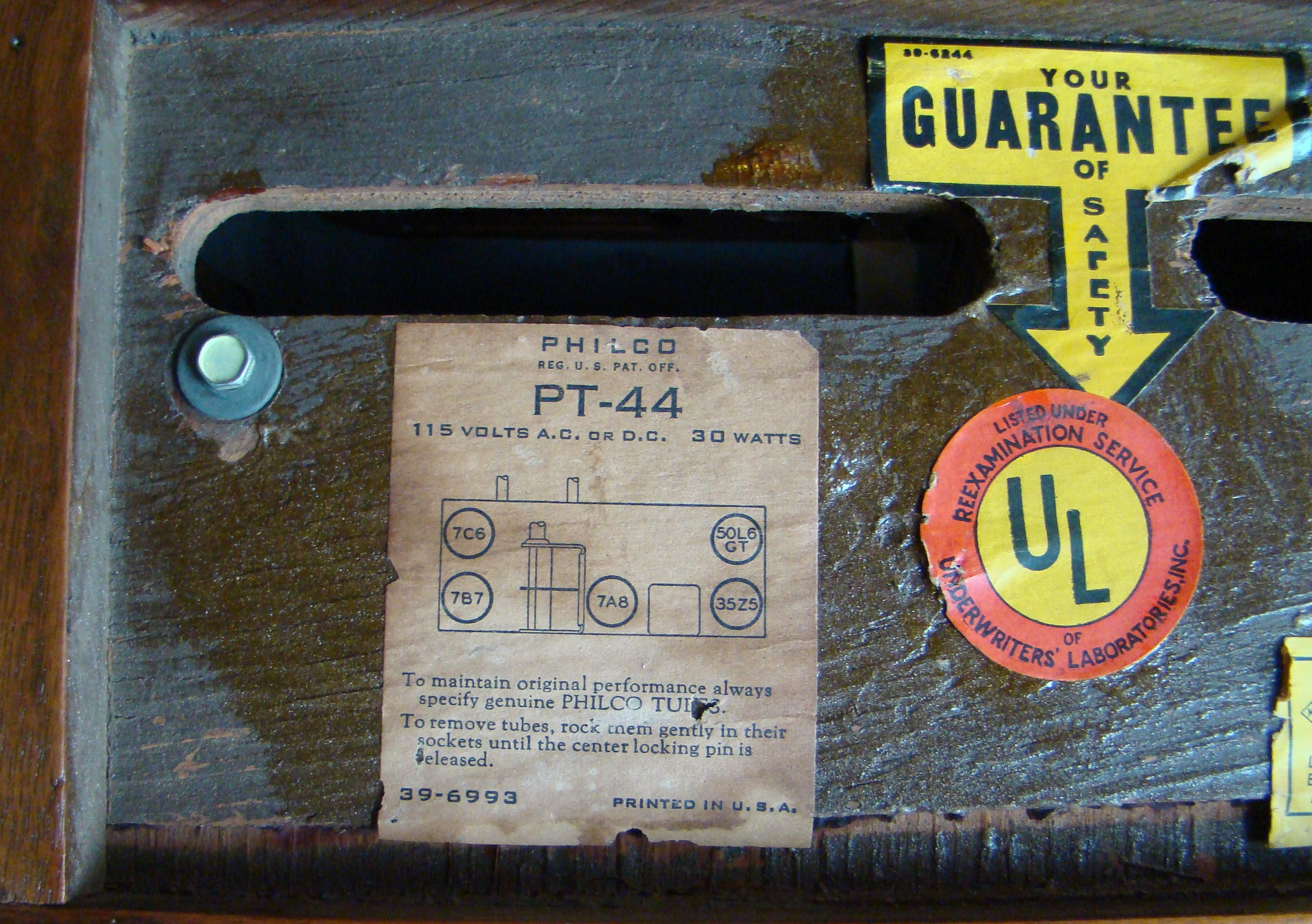 Vacuum tube radio, Philco, model PT-44, bottom